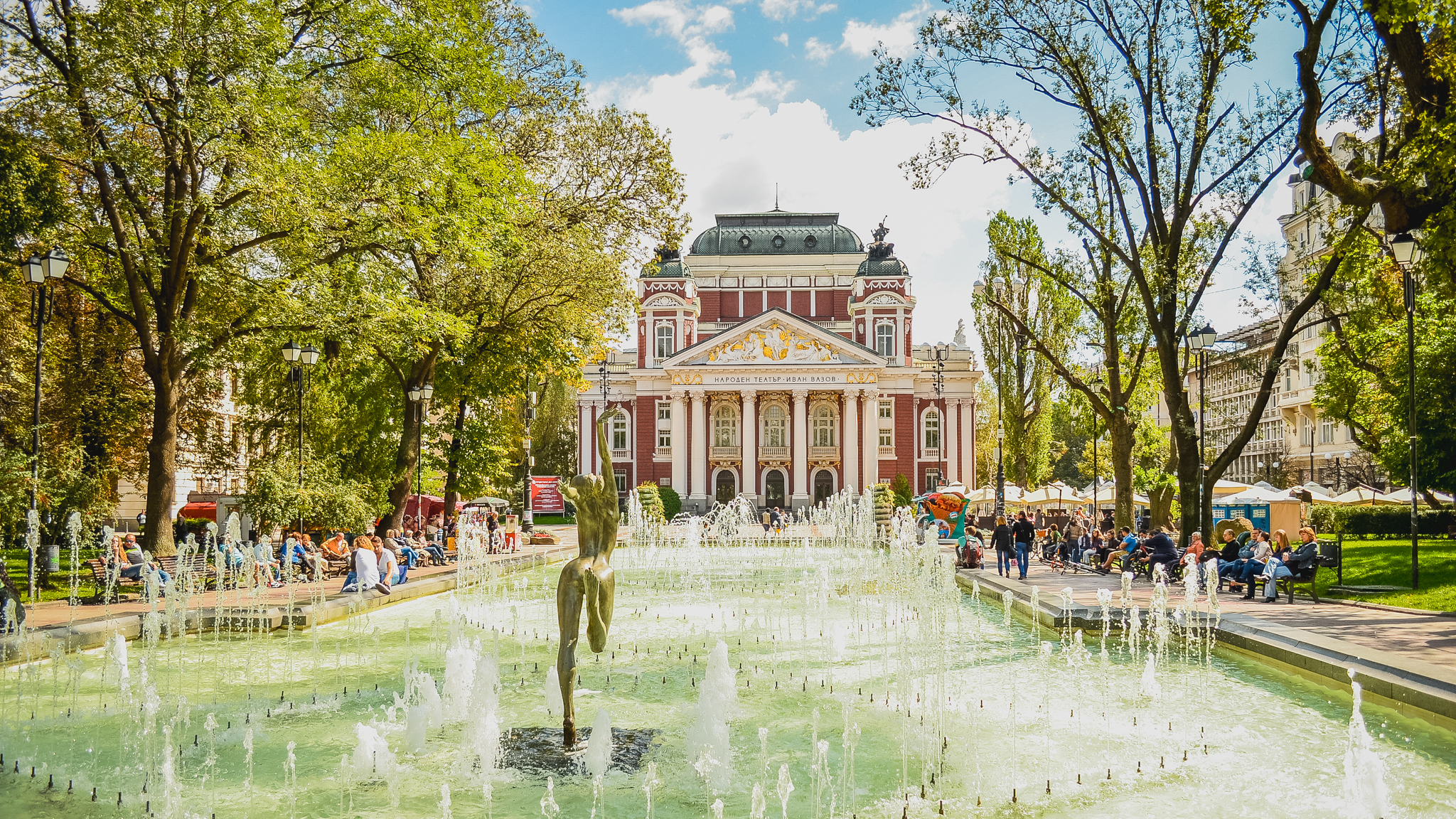 Ivan Vazov National Theatre, Sofia, Bulgaria.